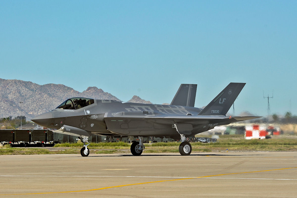 First F-35 Lightning II arrives at Luke AFB